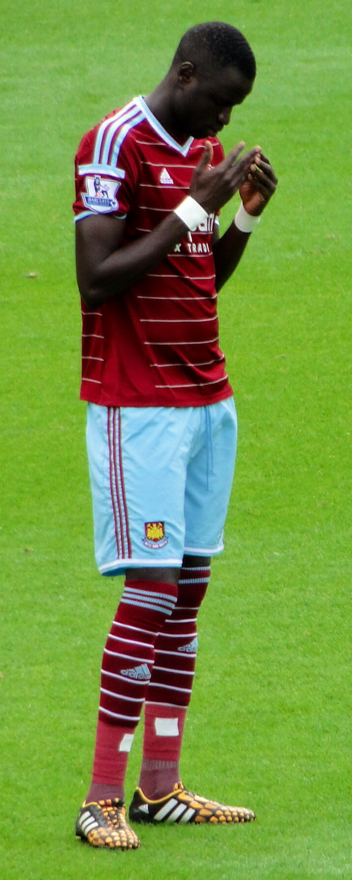 West Ham United player Cheikhou Kouyaté makes dua before their game against Tottenham Hotspur at the Boleyn Ground, August 2014.